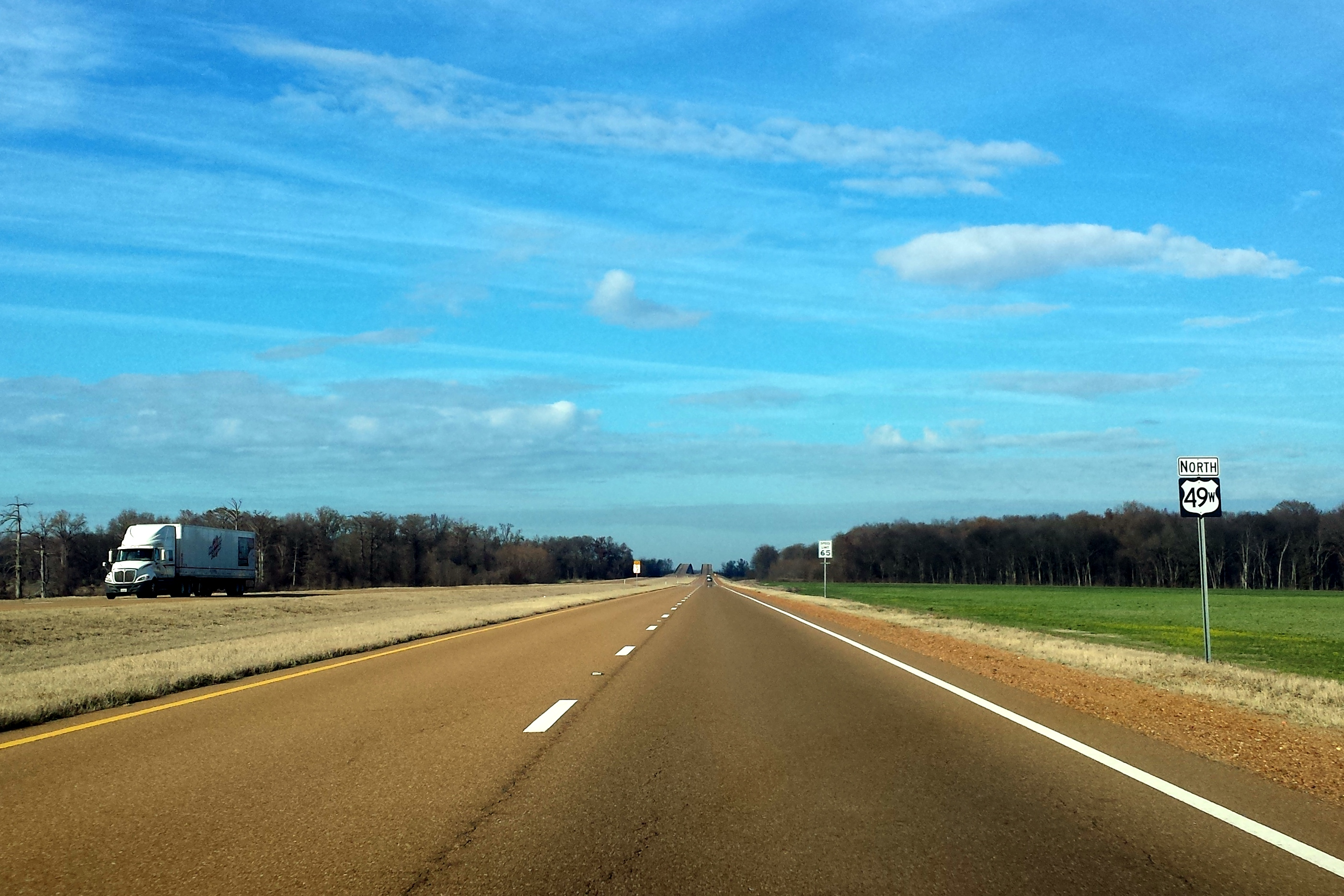 Rural Mississippi Delta scene along US 49W north of Yazoo City, MS